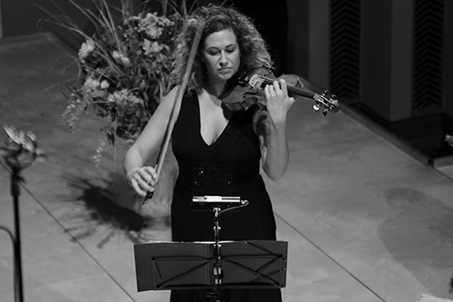 Gwendolyn Masin during performance at GAIA Festival